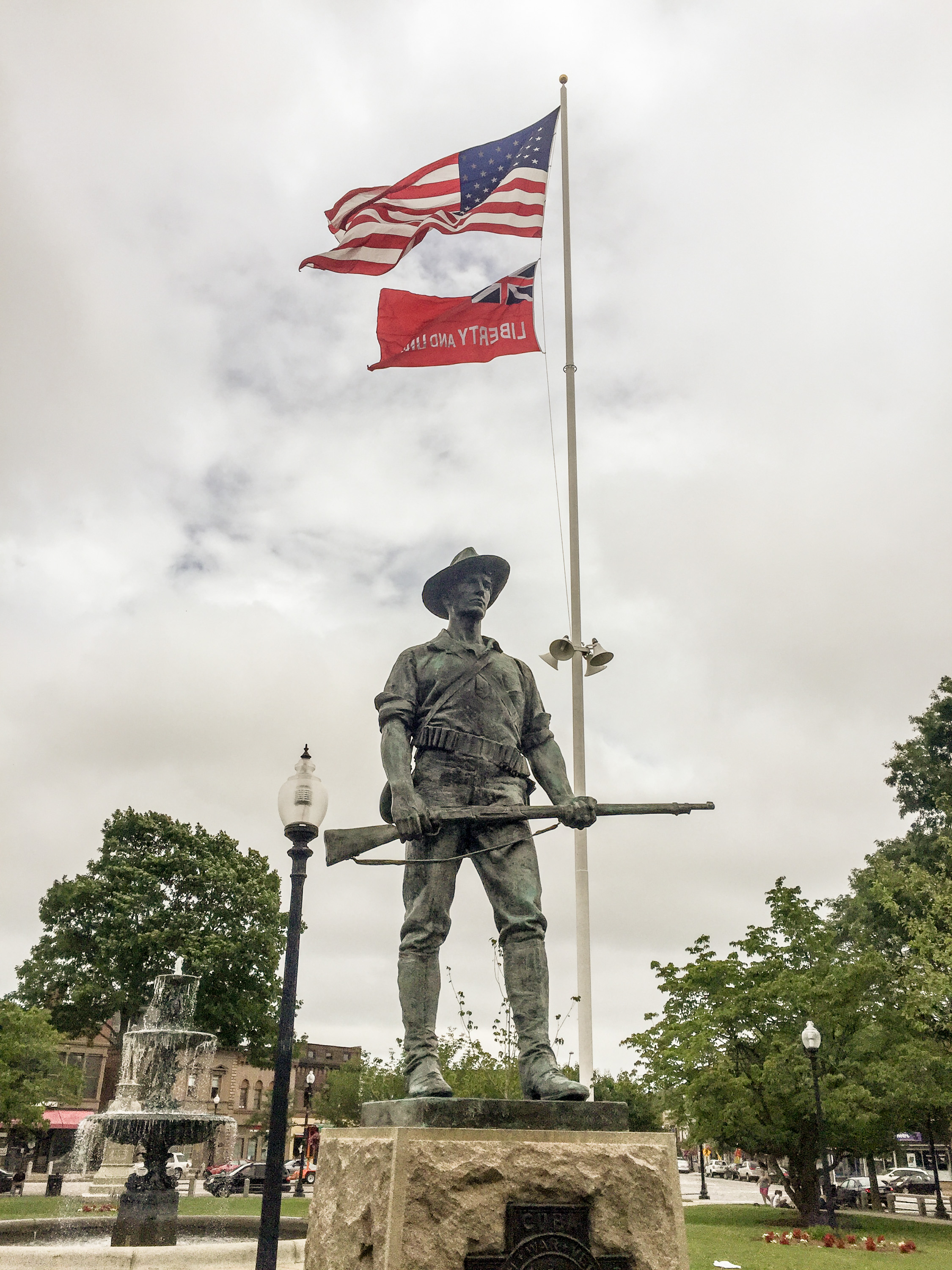 Kitson's The Hiker stands over Taunton Green, Massachusetts